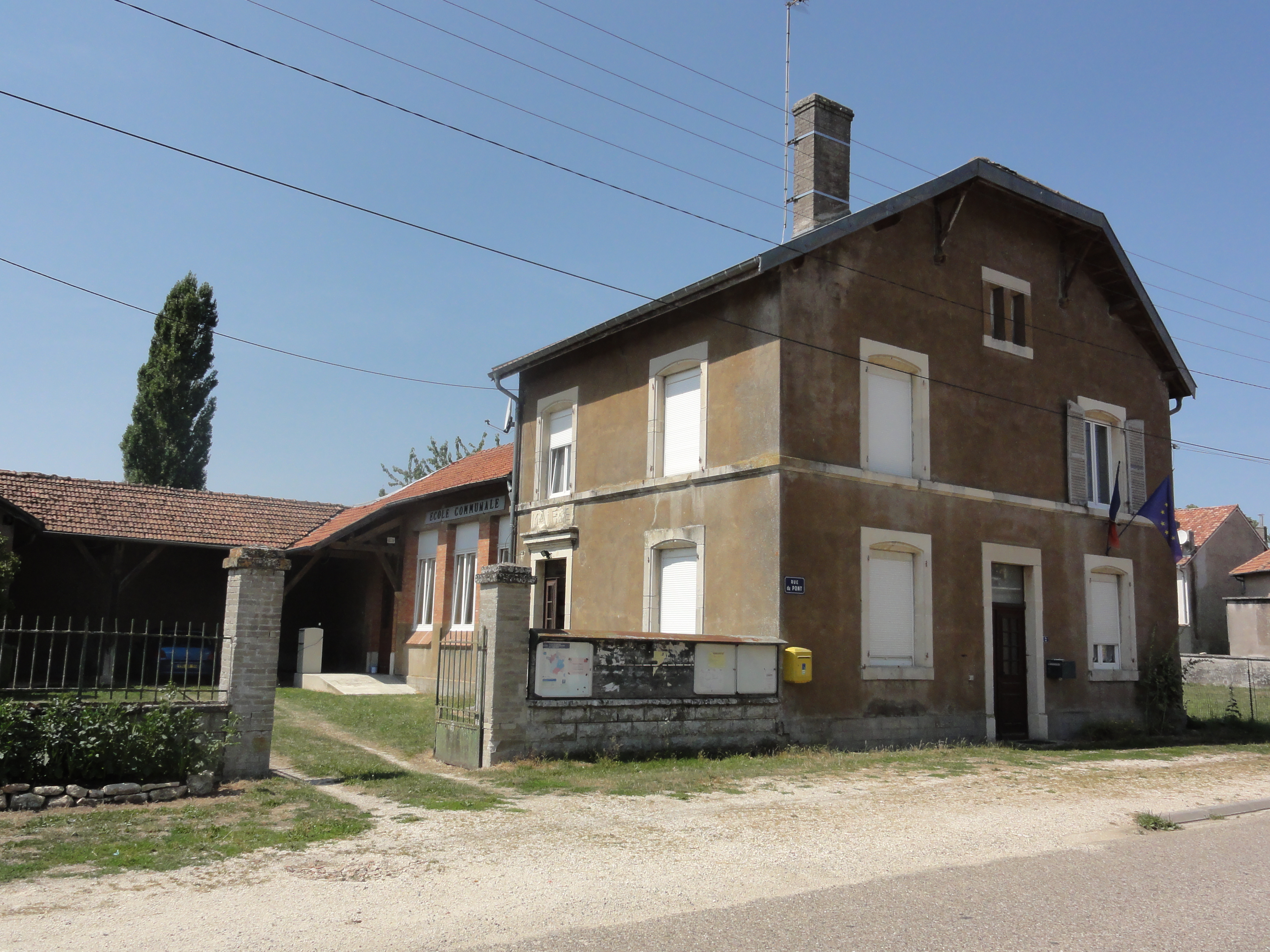 Fromezey (Meuse) mairie-école